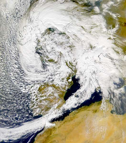 SeaWiFS image of storm over Europe, November 6, 2000.